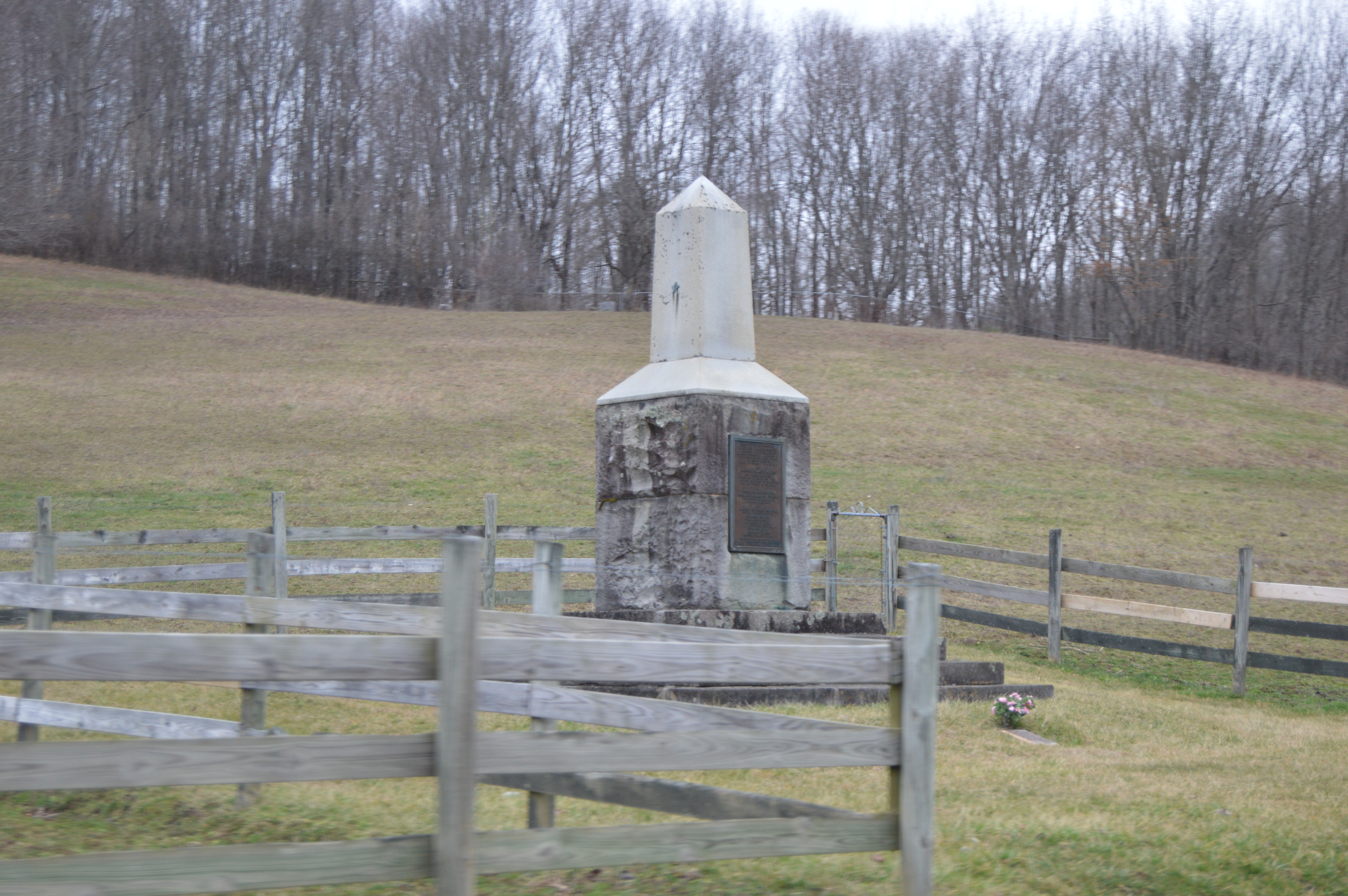 Overview of the Capt. James Moore Homestead, located on Abbs Valley Road southwest of Boissevain in Tazewell County, Virginia, United States. Moore was one of the first settlers in the region, and although he was murdered by Indians and his family were kidnapped after just a few years of living here, their homesite is a significant archaeological site and has been listed on the National Register of Historic Places. Placed in 1928, the monument is not part of the designation.